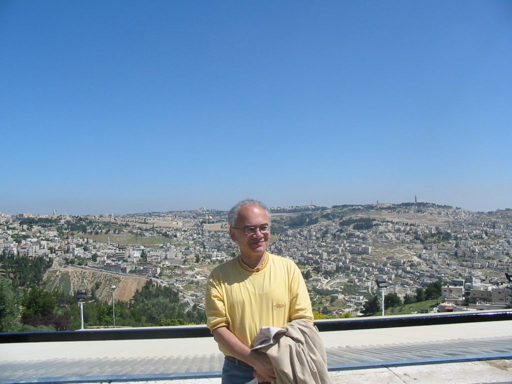 Russian poet Alexander Kushner in Jerusalem, view from promenade in Tapliyot-MizrachTiếng Việt: Aleksandr Kushner ở Jerusalem.